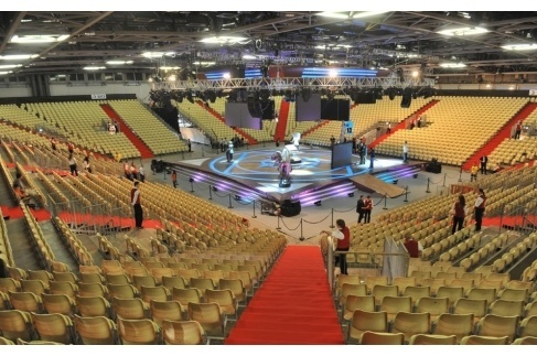 Expo tel aviv israel